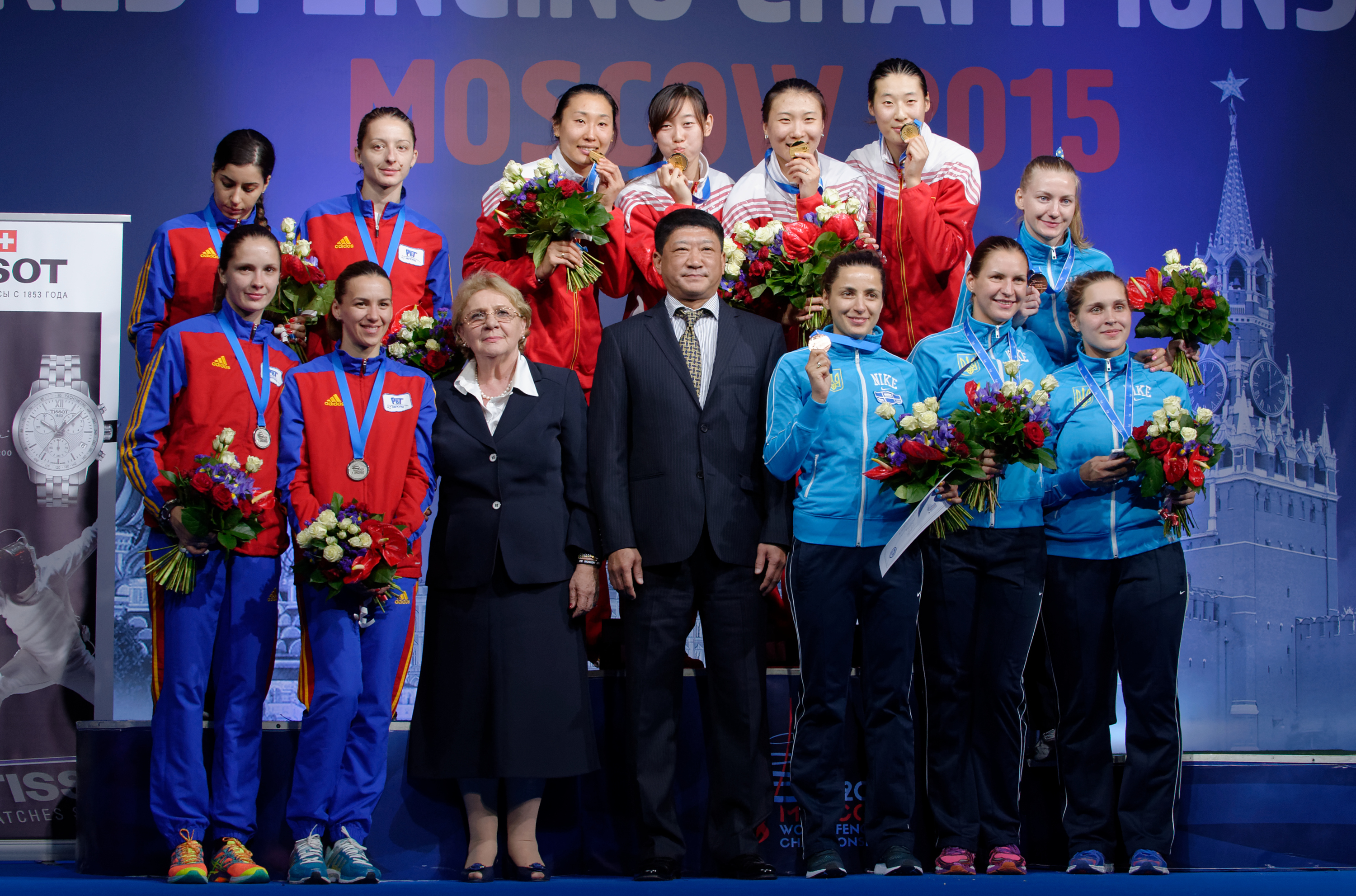 From left to right, Romania, China and Ukraine, along with FIE representatives Ana Pascu and Wang Wei, at the medal ceremony of the women's team épée event of the 2015 World Fencing Championships on 18 July 2014 at the Olympic Stadium in Moscow.